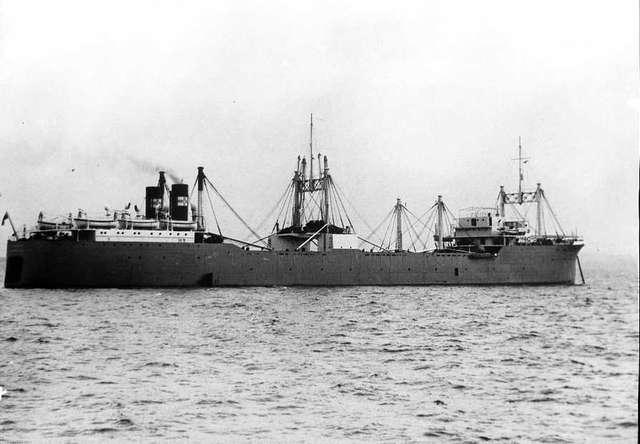 Norwegian whaling factory Kosmos (I) (1929) Norsk (bokmål): Flytende hvalkokeri «Kosmos» av Sandefjord.